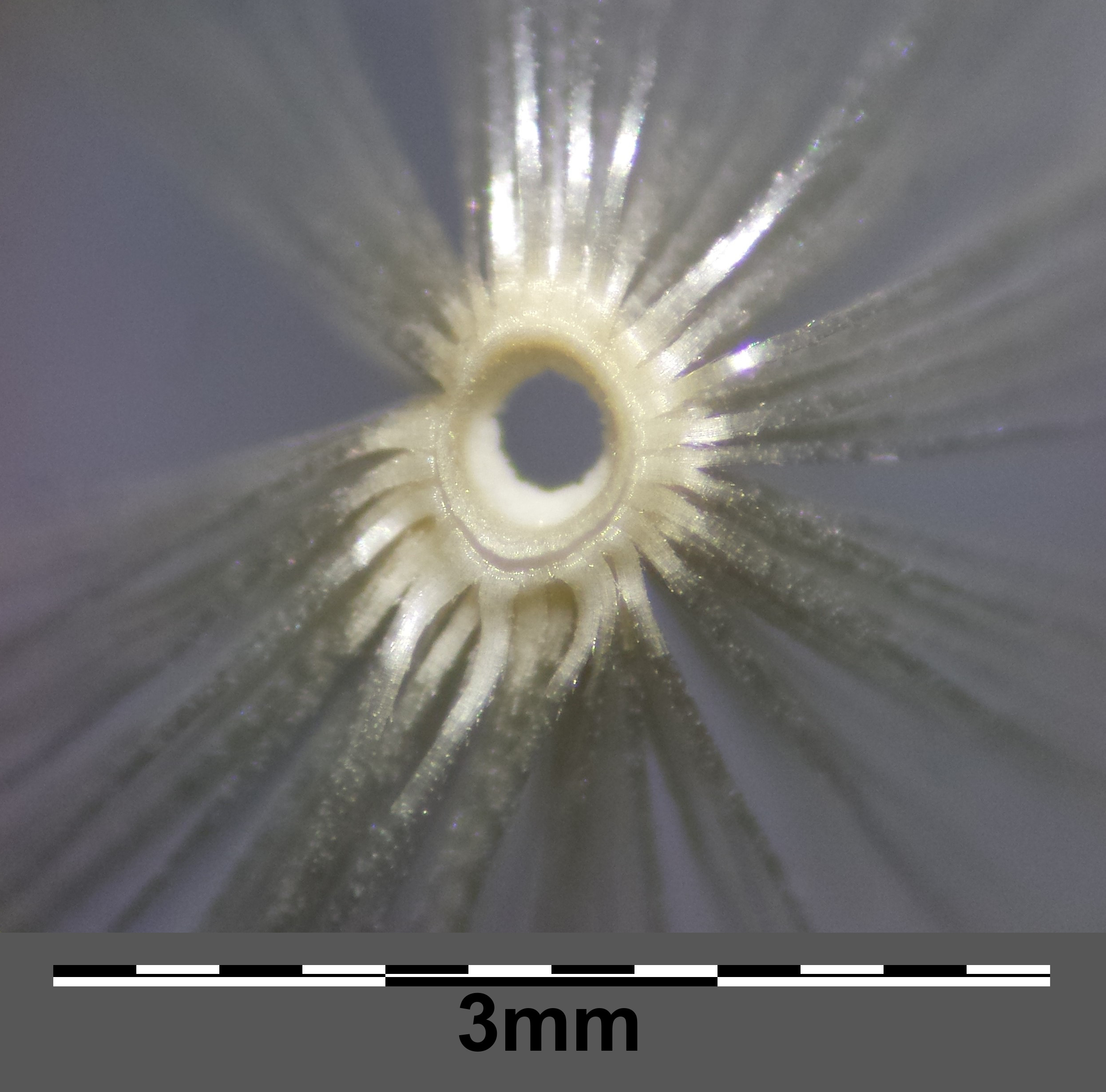 Bottom side of pappus, setae are united at base into a ring Taxonym: Carduus acanthoides ss Fischer et al. EfÖLS 2008 ISBN 978-3-85474-187-9 Location: Neue Donau, Vienna-Floridsdorf - ca. 160 m a.s.l. (leg.: 2015-07-06) Habitat: dry meadows